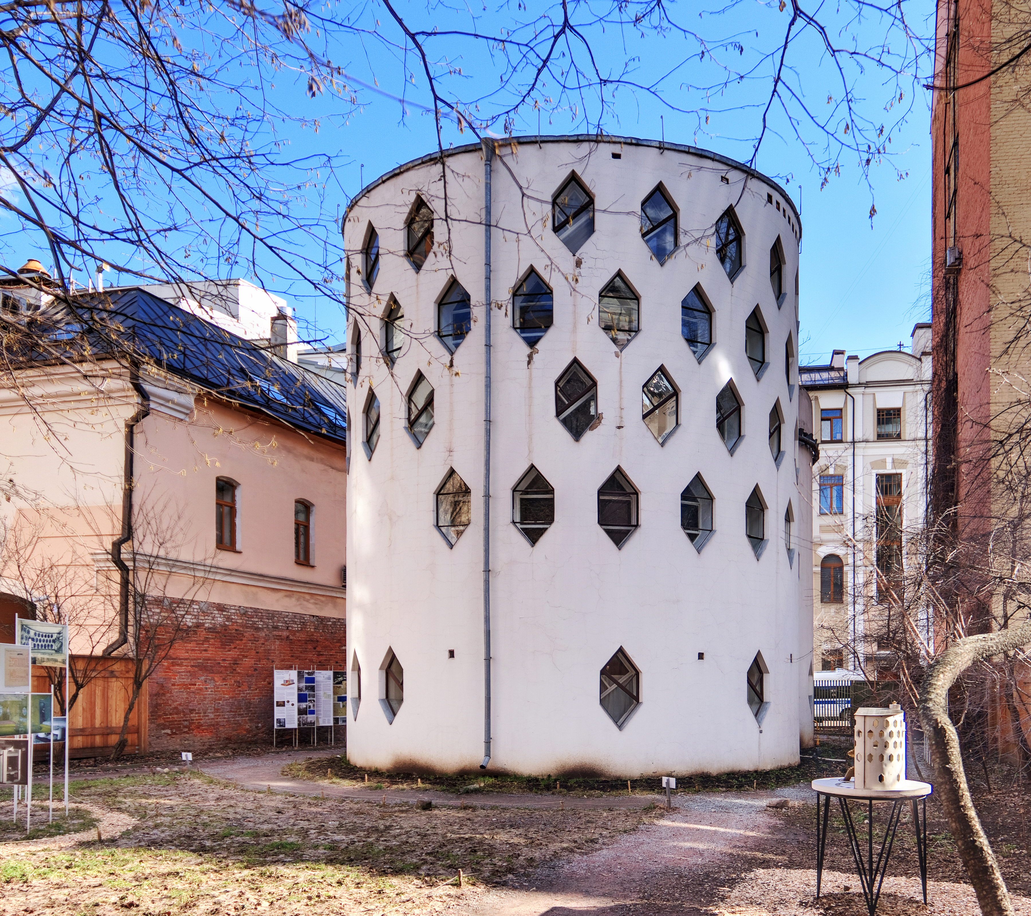 Experimental Melnikov House, Krivoarbatsky Lane 10, Moscow